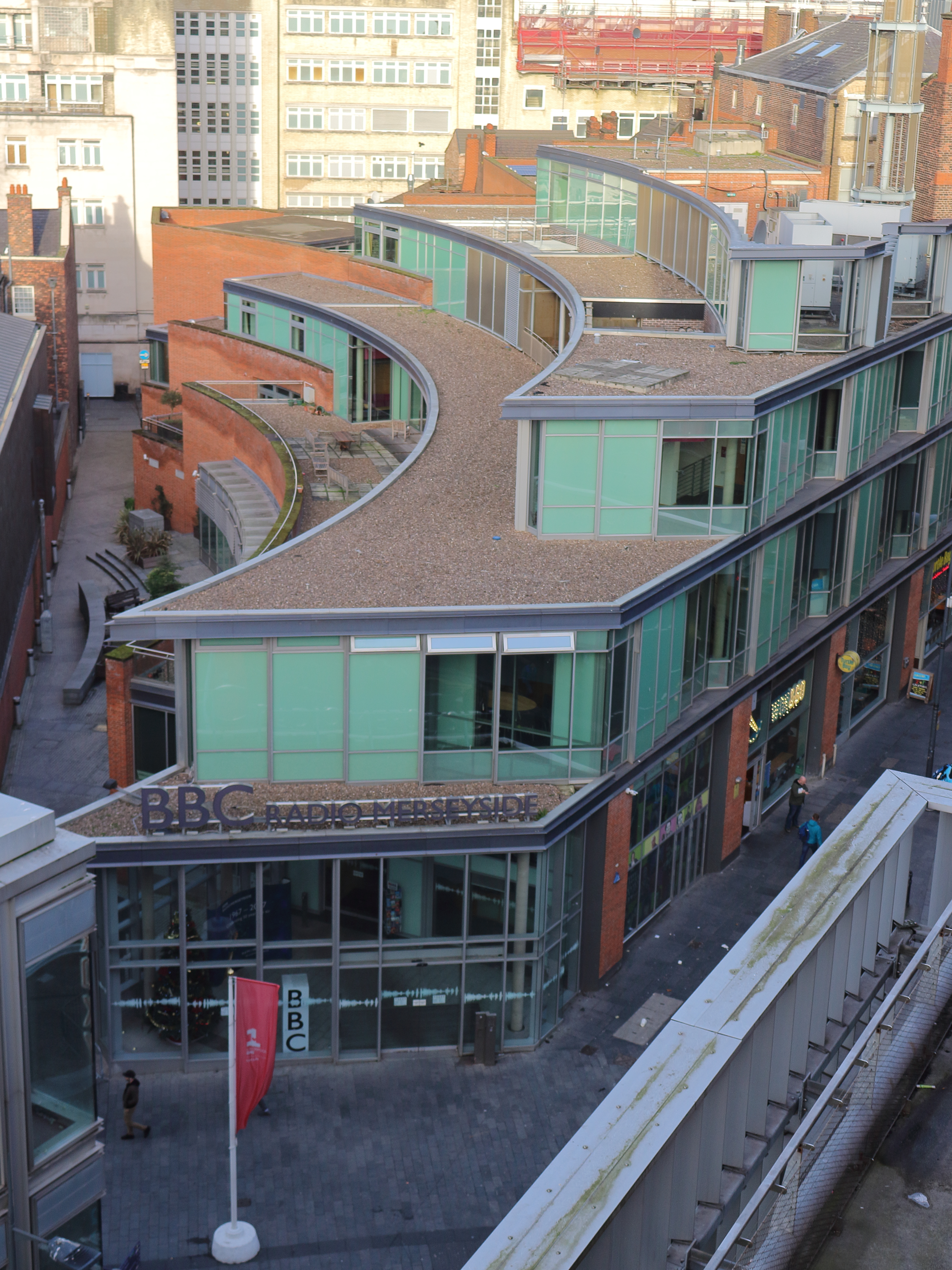 Offices of BBC Radio Merseyside on Hanover Street, Liverpool, from the car park opposite.